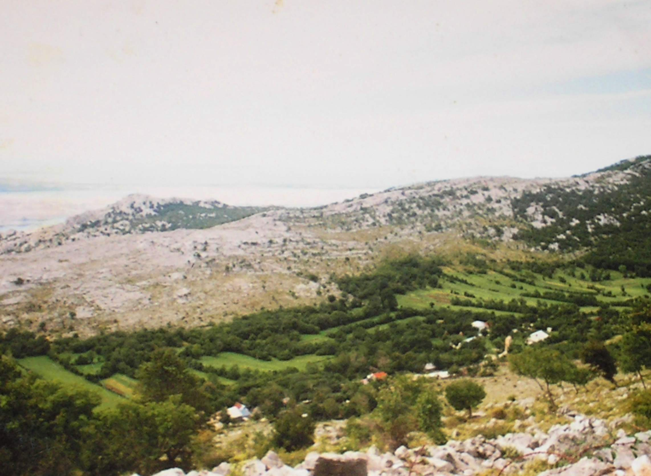 Mountain Velebit, valley Dosen DabarHrvatski: Udolina Došen Dabar na srednjem Velebitu